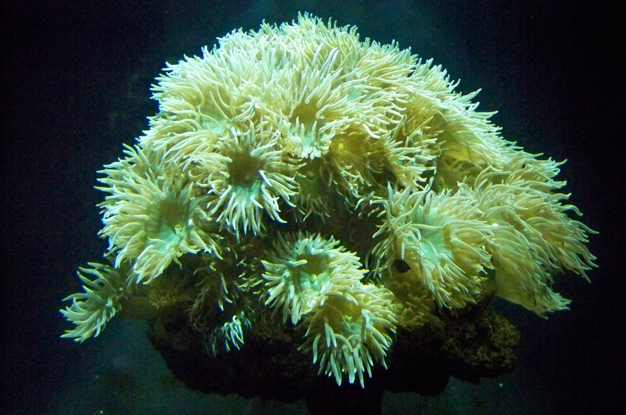 Part of the Steinhart Aquarium of the California Academy of Science in San Francisco, California